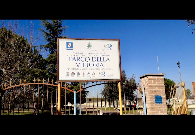 Parco della vittoria Santa Maria la fosaa